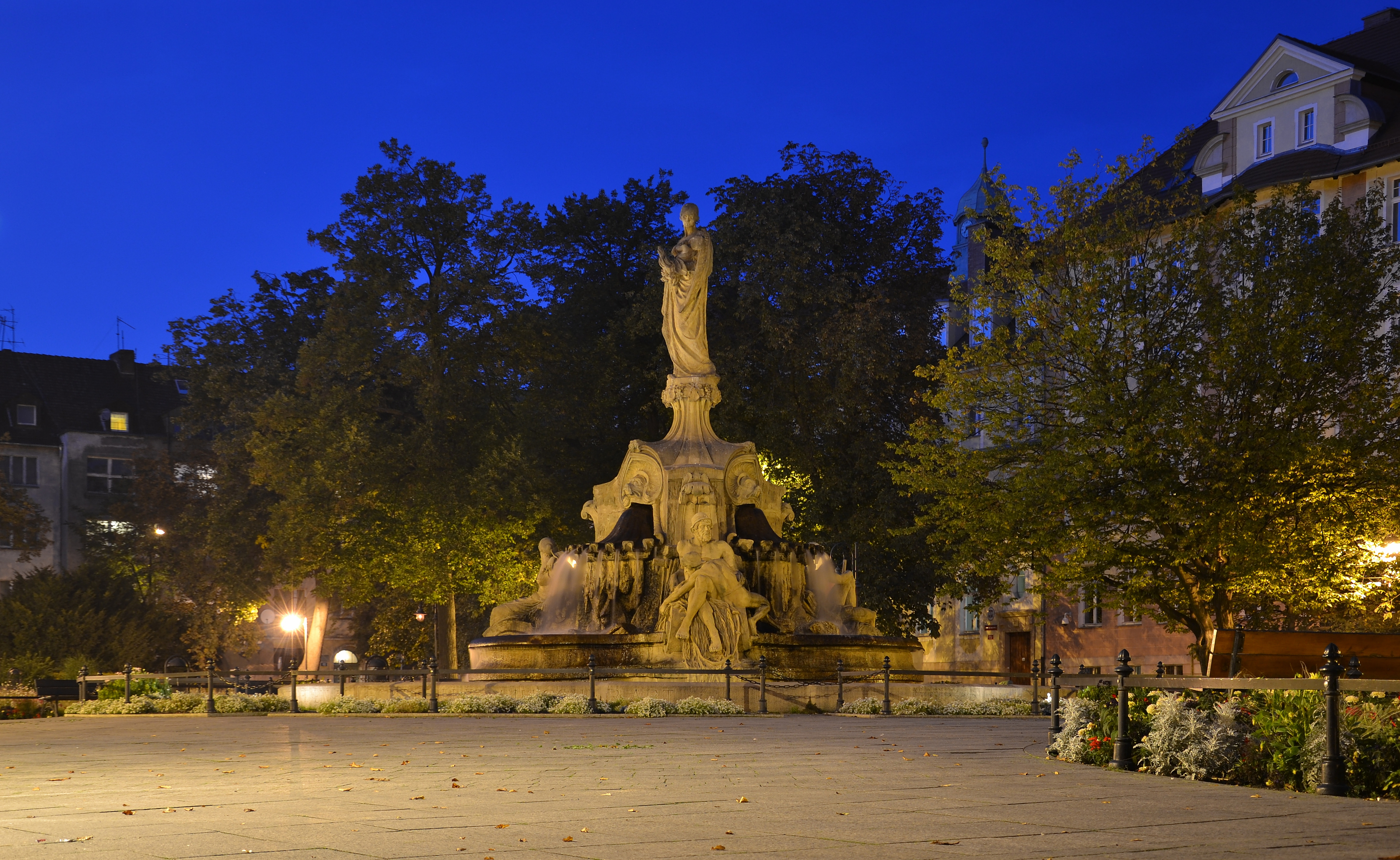 Opole (Oppeln), Silesia - fountain Ceres by night